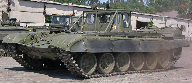 T-72 / Fahrschulpanzer / version specially built for driving school